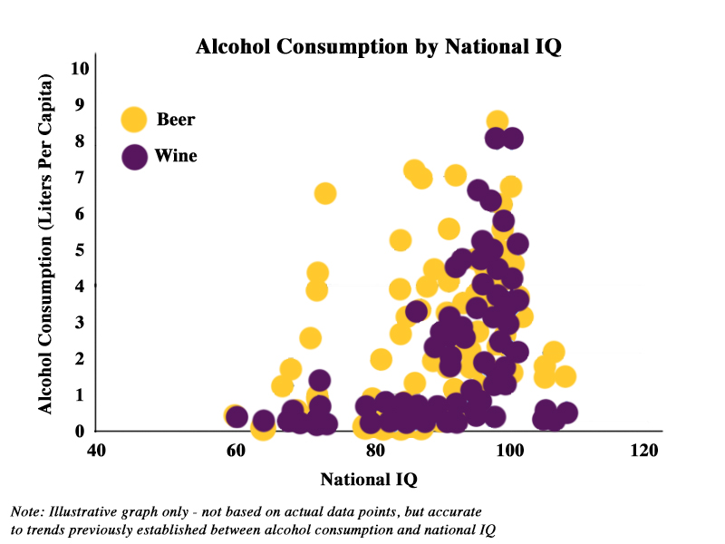 Note: Illustrative graph only - not based on actual data points, but accurate to trends previously established between alcohol consumption and national IQ